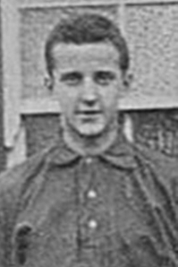 Picture of Arthur Charlton - Brentford FC - 1894